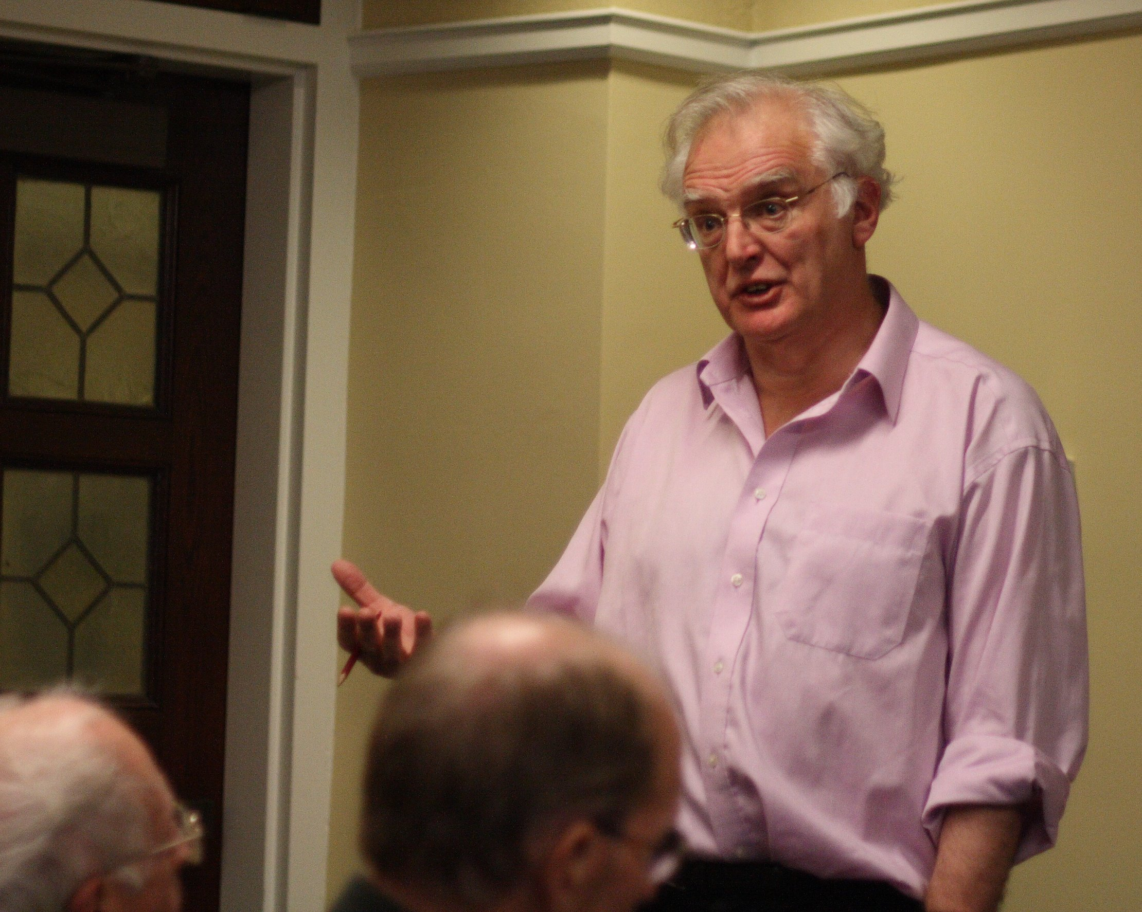 John V. Pickstone at the 2007 History of Science Society meeting